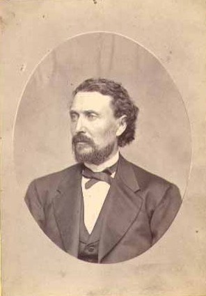 John Michael Carroll, Congressman from New York